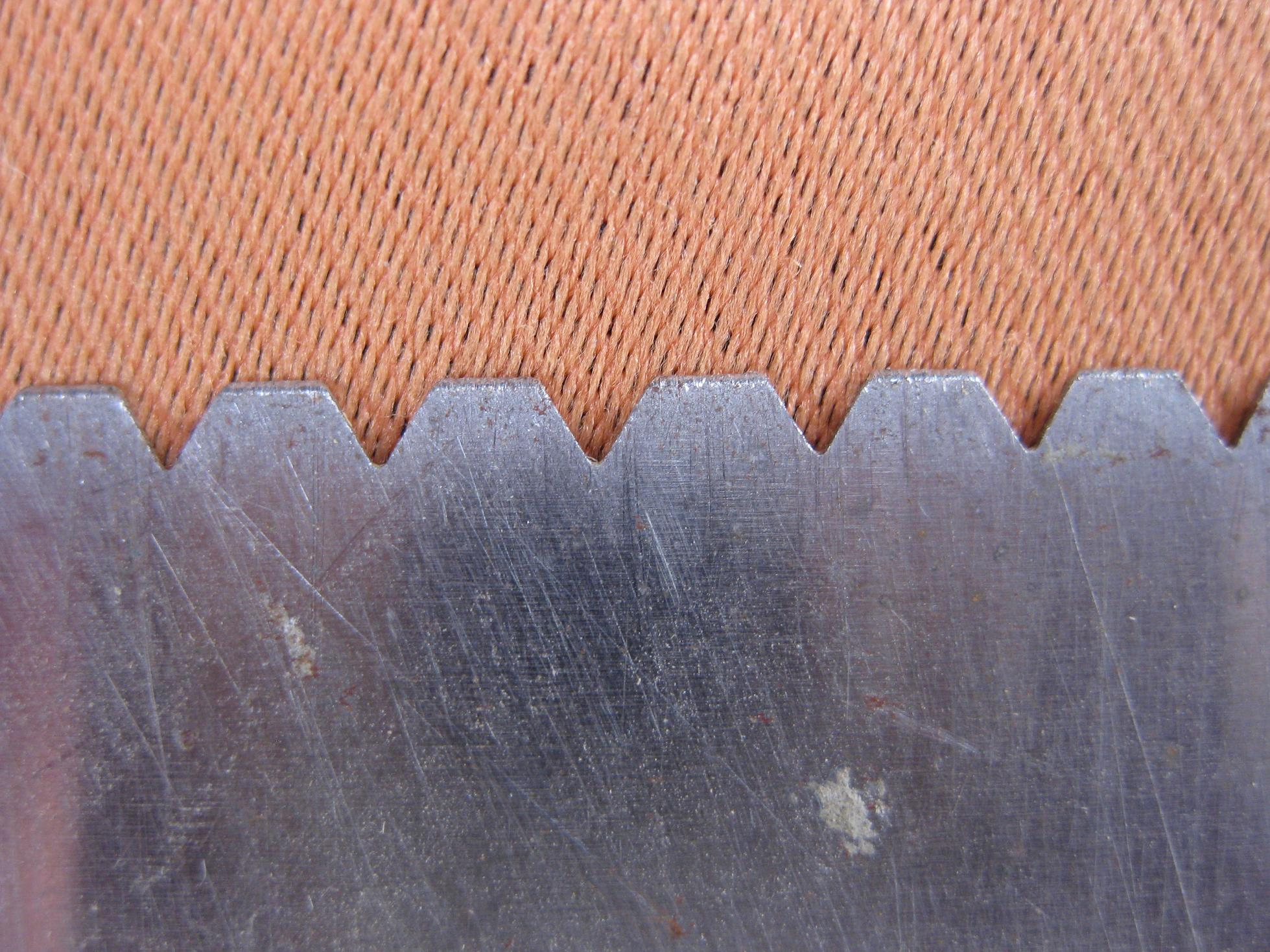 Detail of a putty knife